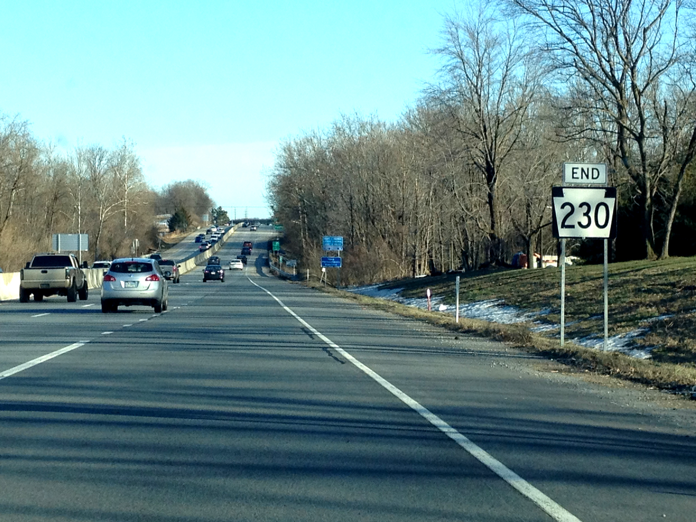 Pennsylvania Route 230 eastern terminus at Pennsylvania Route 283 in Rapho Township, Lancaster County, Pennsylvania.